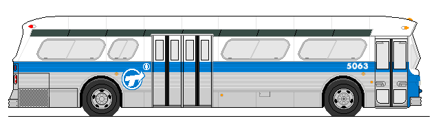 Montreal Urban Community Transit Commission/Commission de transport de la communauté urbaine de Montréal Canadiar-Flxible CL-218 NUMBER 5063